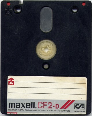 A 3-inch Compact Floppy Disk (Double-Sided), made by Hitachi-Maxell, c. 1990. Scanned by Zilog Jones.